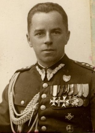 Tadeusz Munnich 1937 Grodek Jagiellonski dca. 26pp strz lwowskich